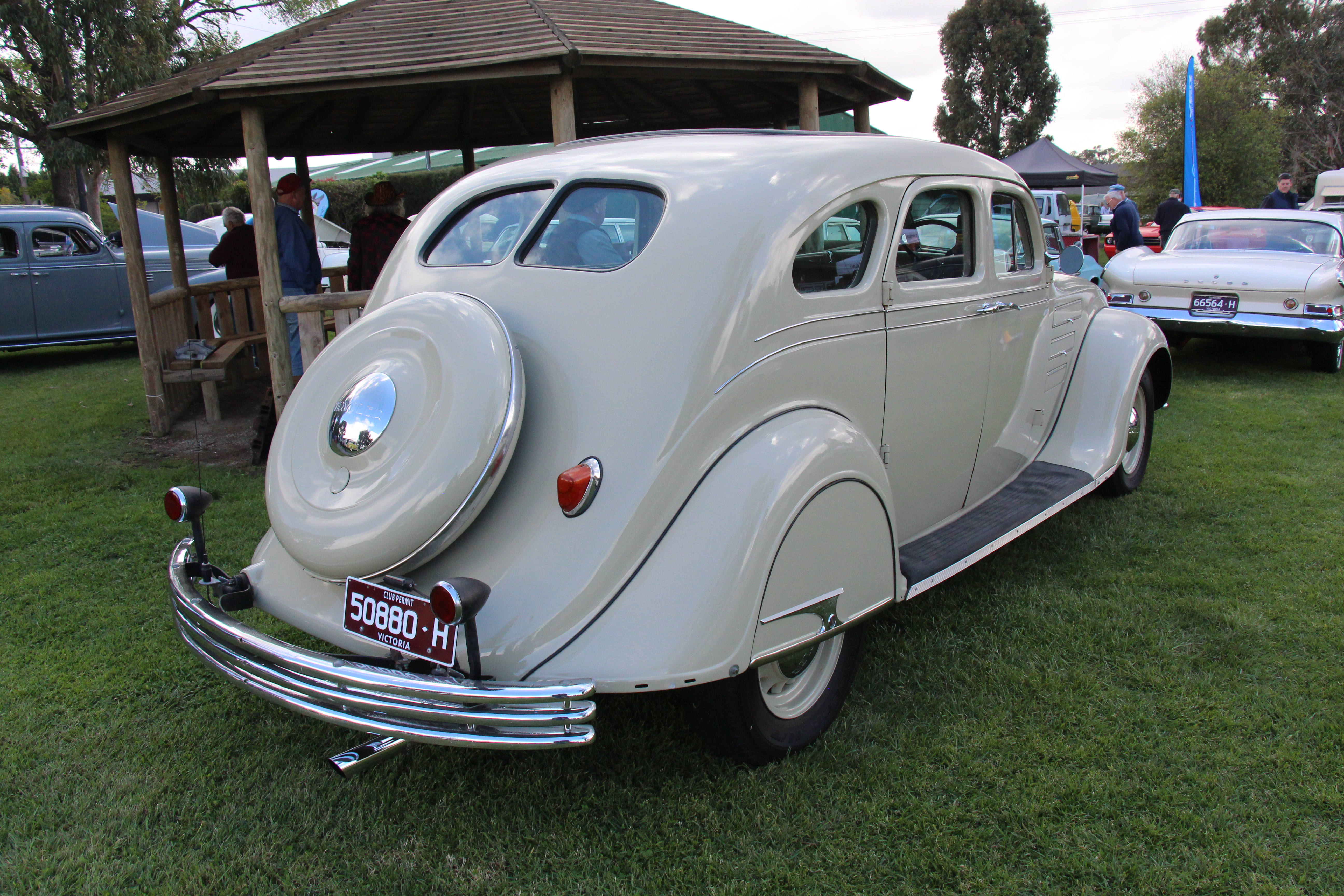 1934 Chrysler Imperial Airflow sedan